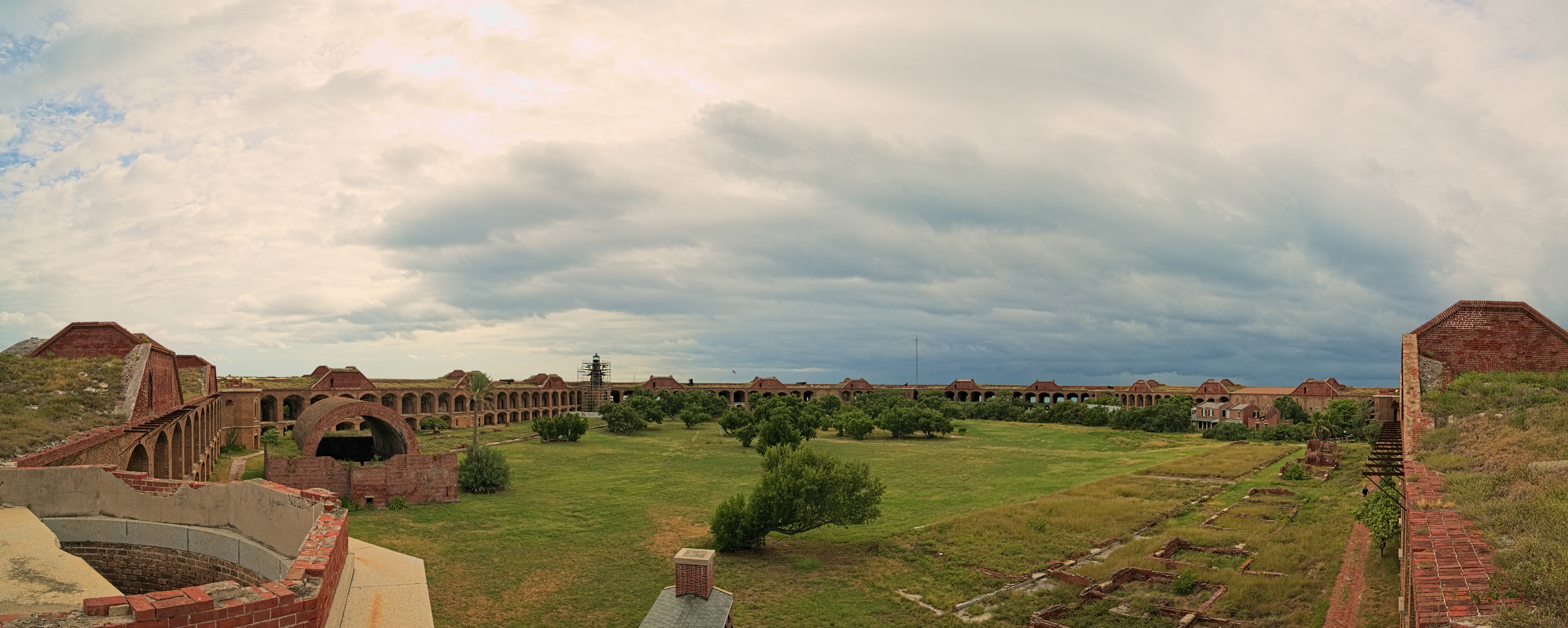 The courtyard of Fort Jefferson on Garden Key in Dry Tortugas National Park, Florida.